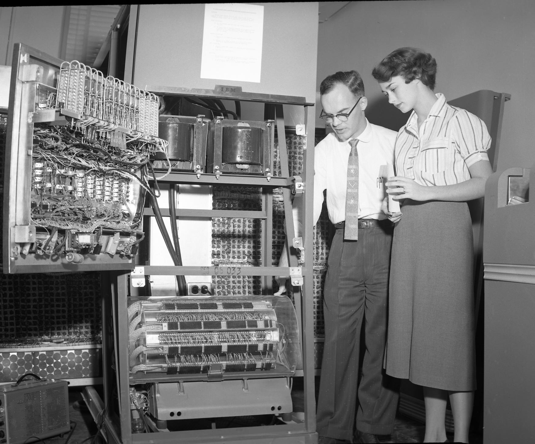 IBM 650 computer at Texas A&M University, College Station, Texas, opened to show storage drum and rear of front panel.